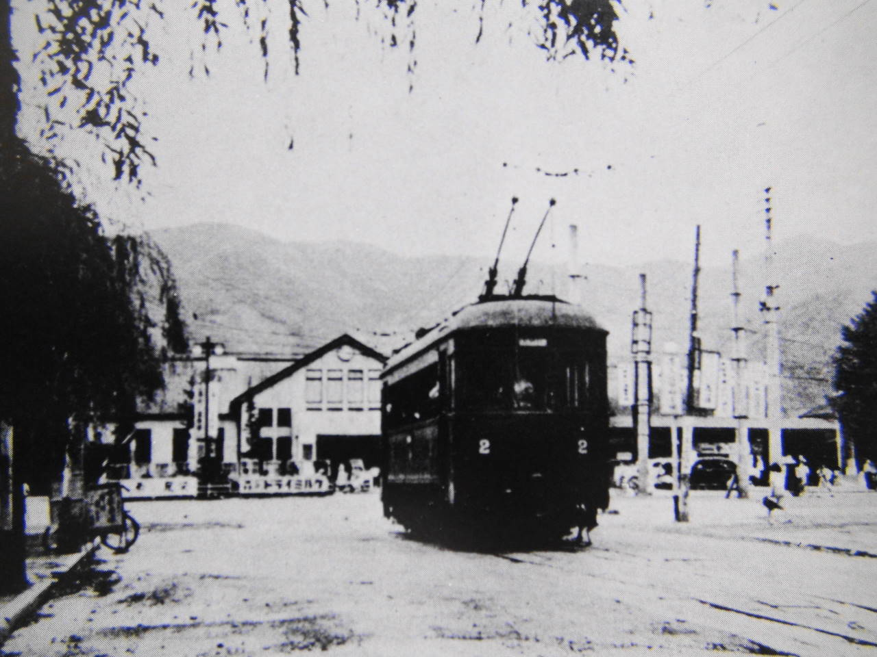 Yamanashi Kotsu Railway Line circa 1946